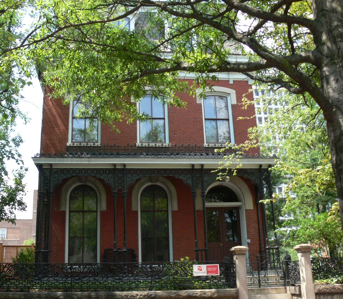 The Decatur O. Davis House in the Court End neighborhood of Richmond, Virginia; on the National Register of Historic Places